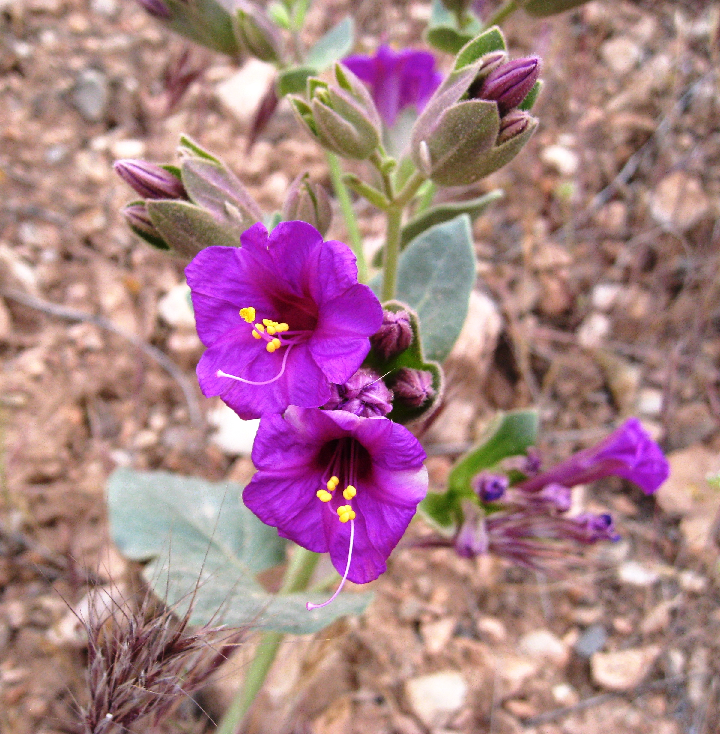 Mirabilis multiflora (common name Colorado four o'clock) Source and thanks to edgeplot for help on the ID Growing at 1130 m (3700 feet) elevation, 0n the Tonto Platform next to the Plateau Point trail, near Indian Garden, South Rim of Grand Canyon National Park. The Tonto Group makes up the Tonto Platform seen above and following the Colorado River; the Tapeats Sandstone and Muav Limestone form the platform's cliffs and the Bright Angel Shale forms its slopes sw2 084